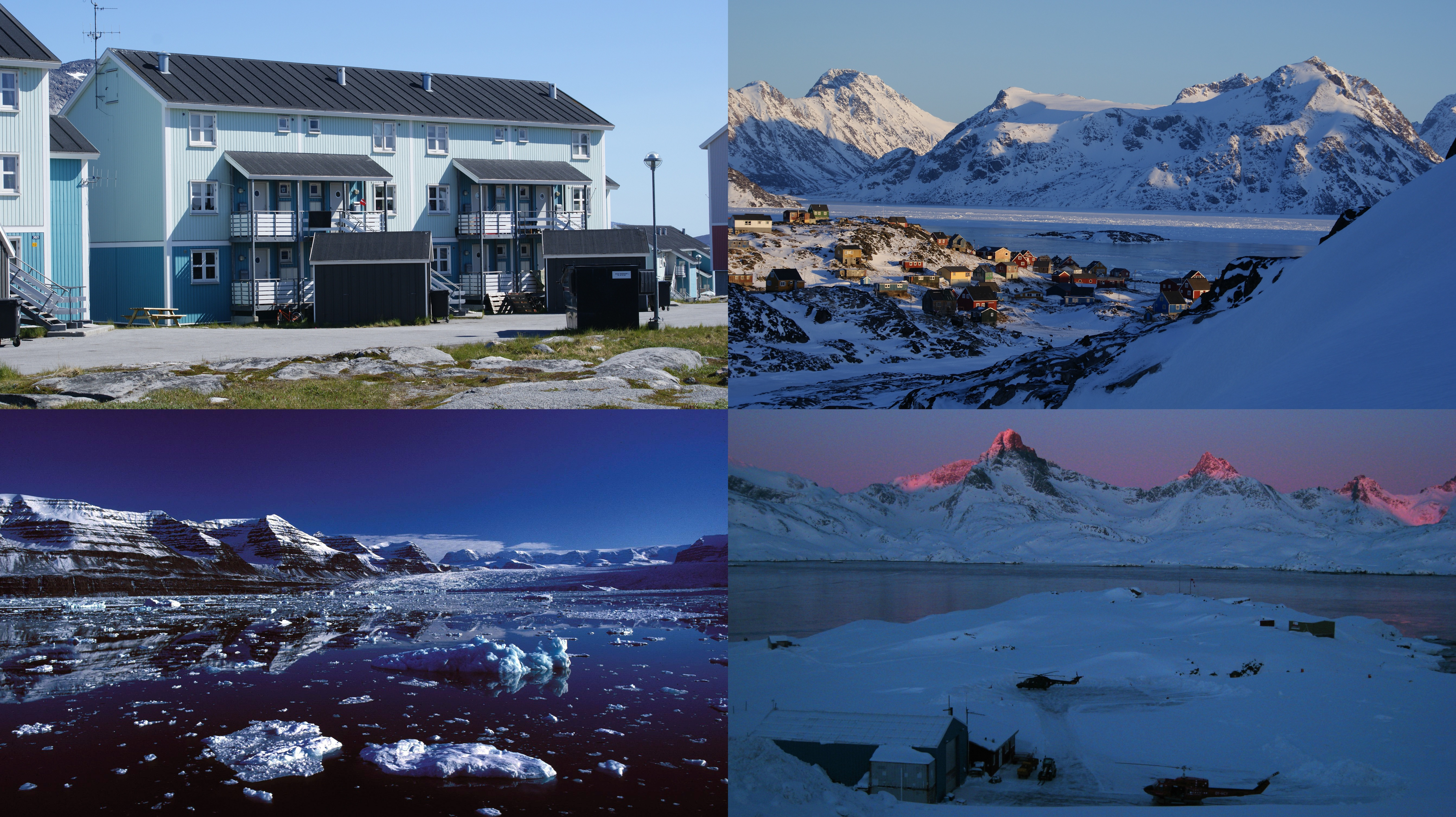 Montage of photographs from the Sermersooq Municipality, Greenland. top left: Nuussuaq District of Nuuk top right: Kulusuk bottom left: Kangertittivaq Fjord (Scoresbysund) bottom right: Tasiilaq